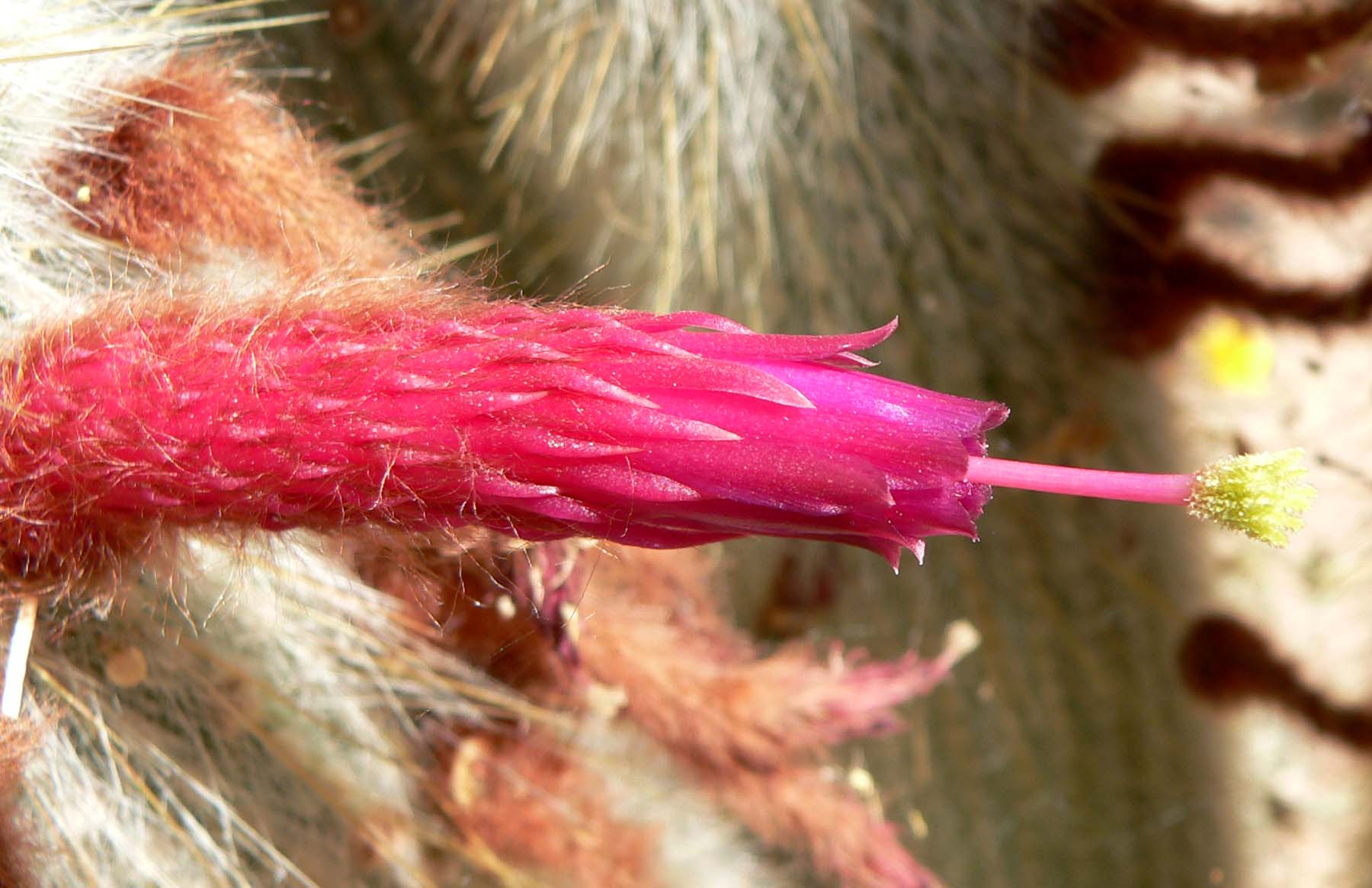 Photo of Cleistocactus strausii at the Springs Preserve garden in Las Vegas, Nevada